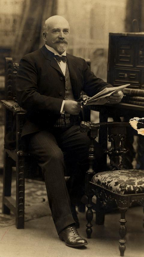 Jose Menendez, founder of Argentine supermarket chain La Anonima.